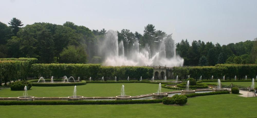 The Main Fountain Garden at Longwood Gardens. Photo taken by me May 22, 2004.